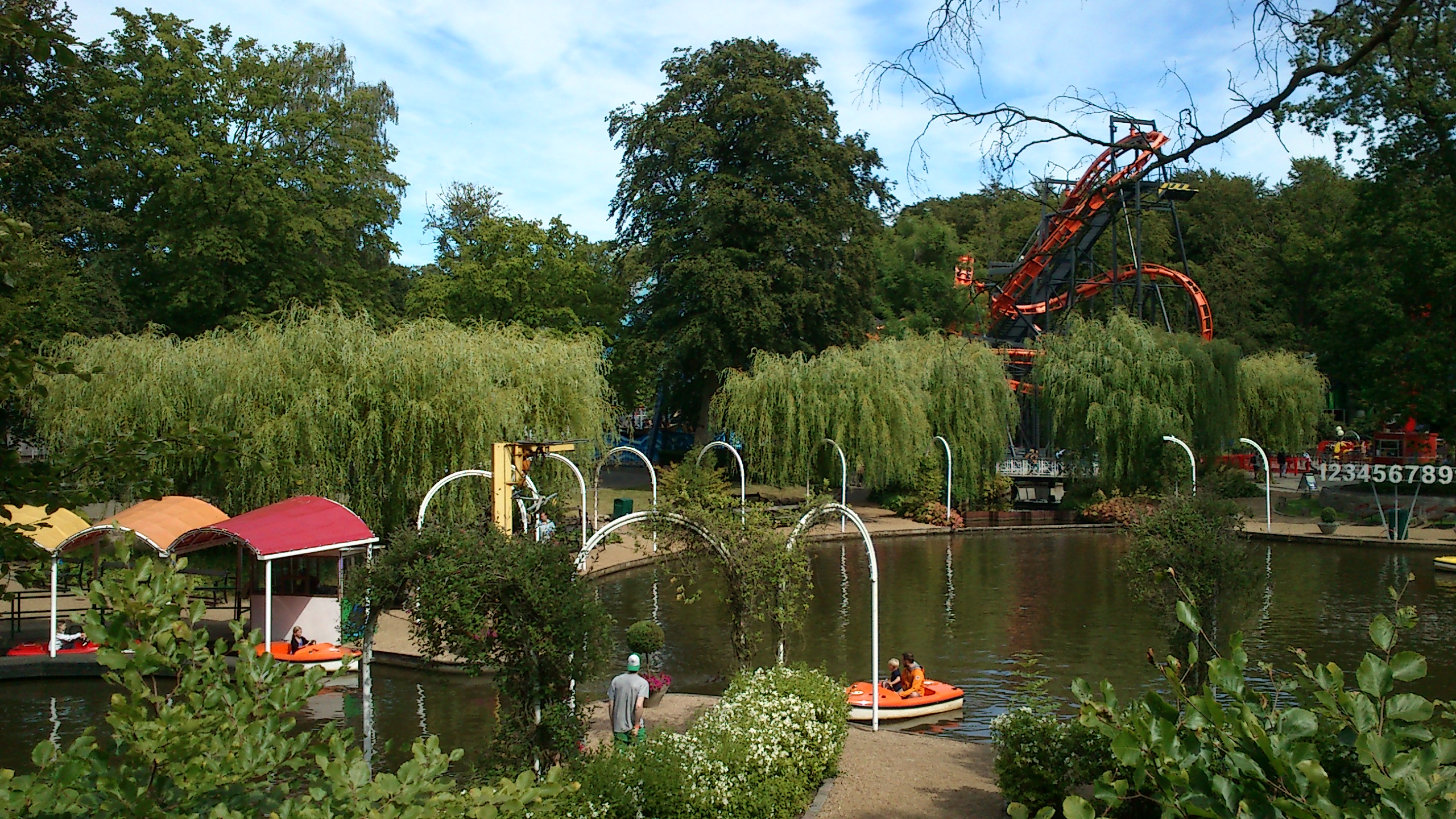 From Tivoli Friheden.